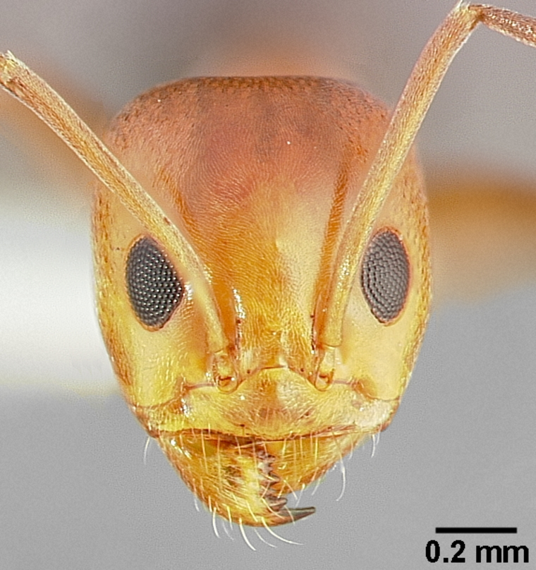 Head view of ant Dorymyrmex bicolor specimen casent0005318.